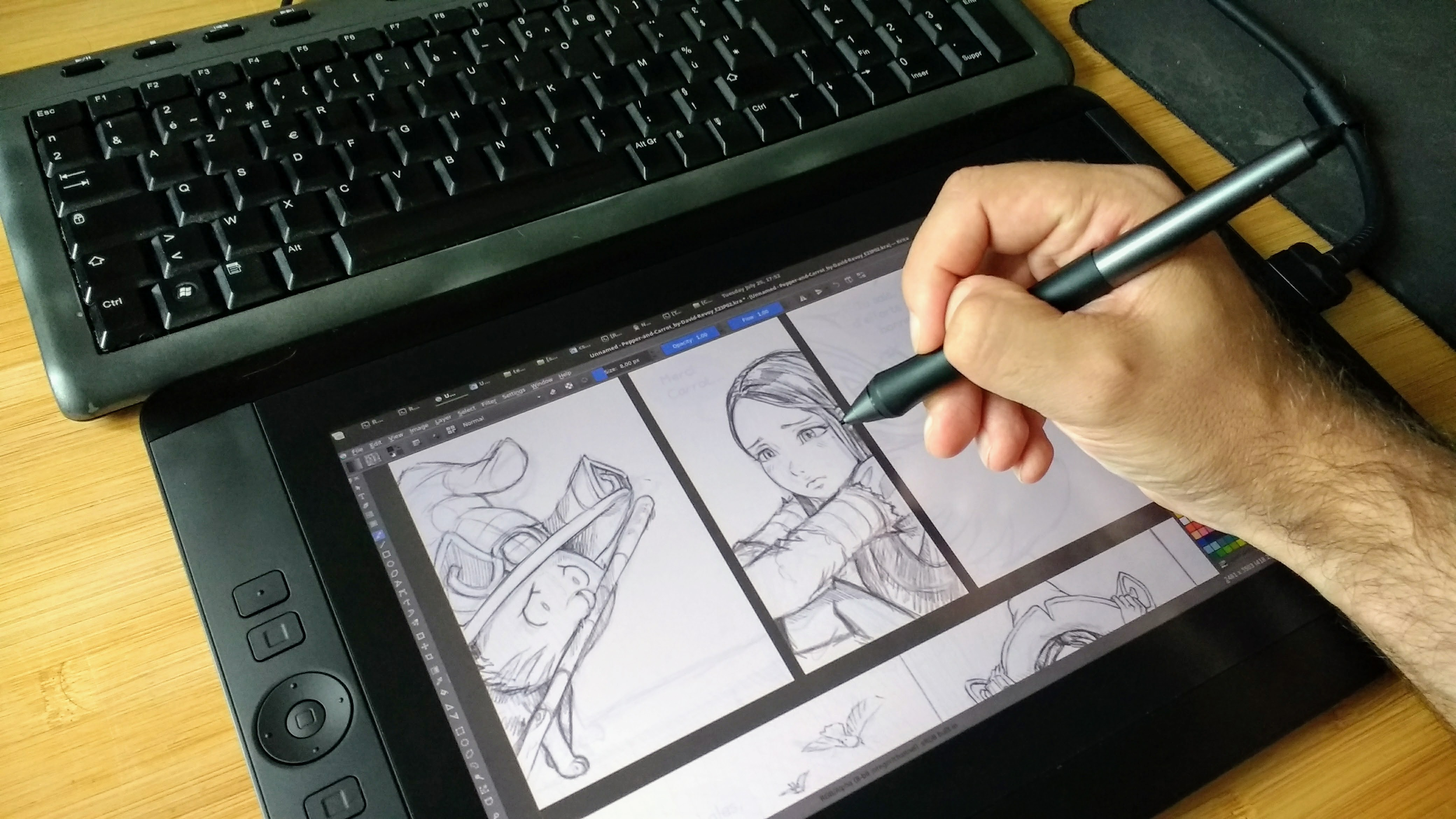 Penciling on Wacom Cintiq 13HD by David Revoy, for the 23rd episode of Pepper&Carrot